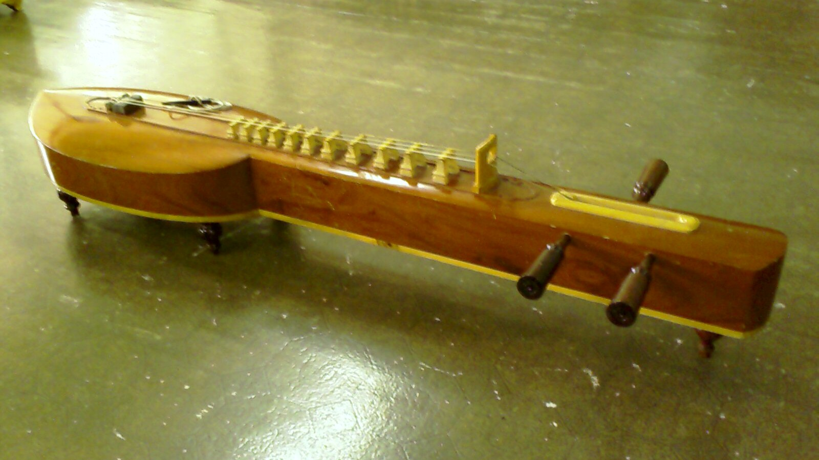 Jakhe, a traditional Thai musical instrument